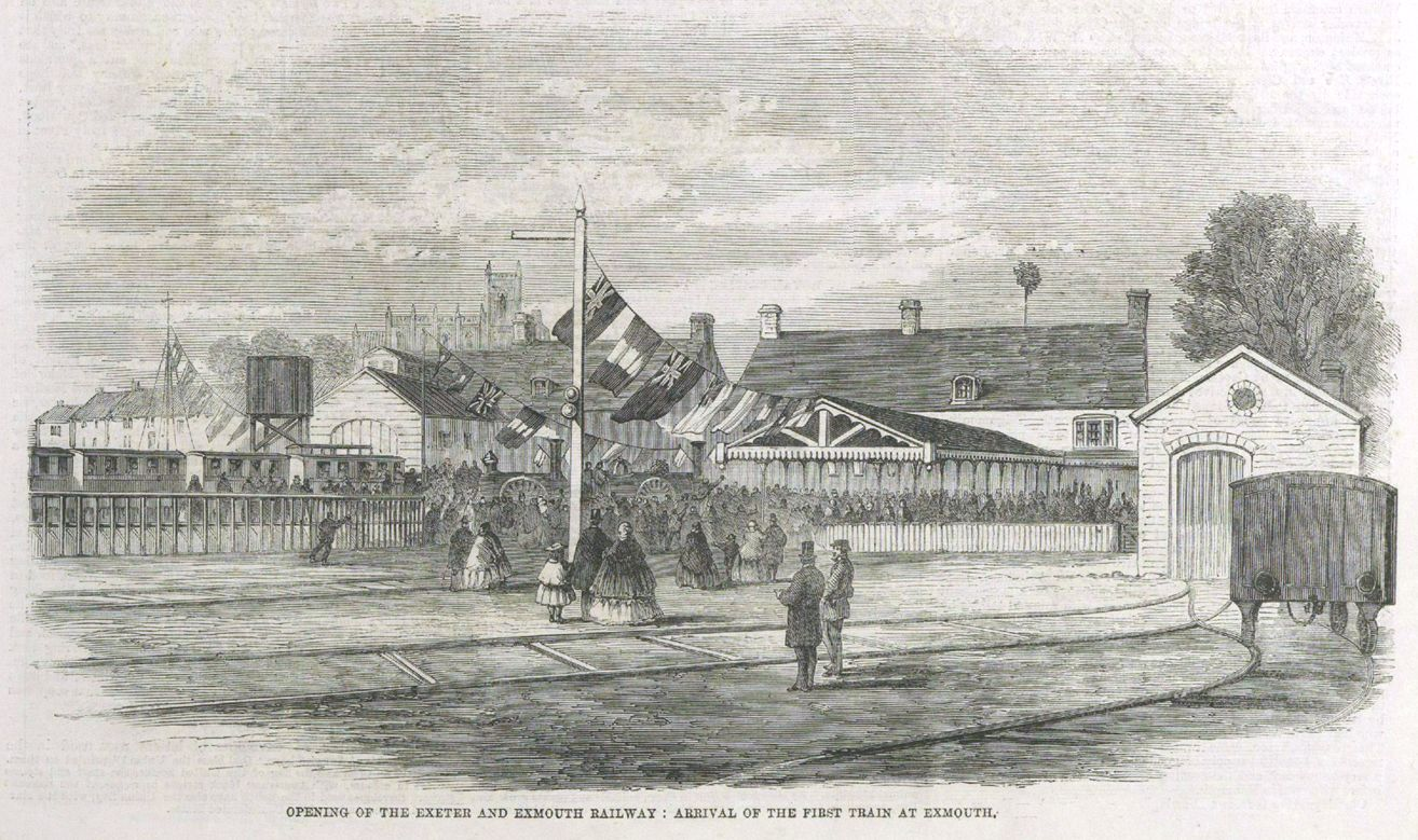 Engraving of opening ceremony at Exmouth Railway on May 1, 1861